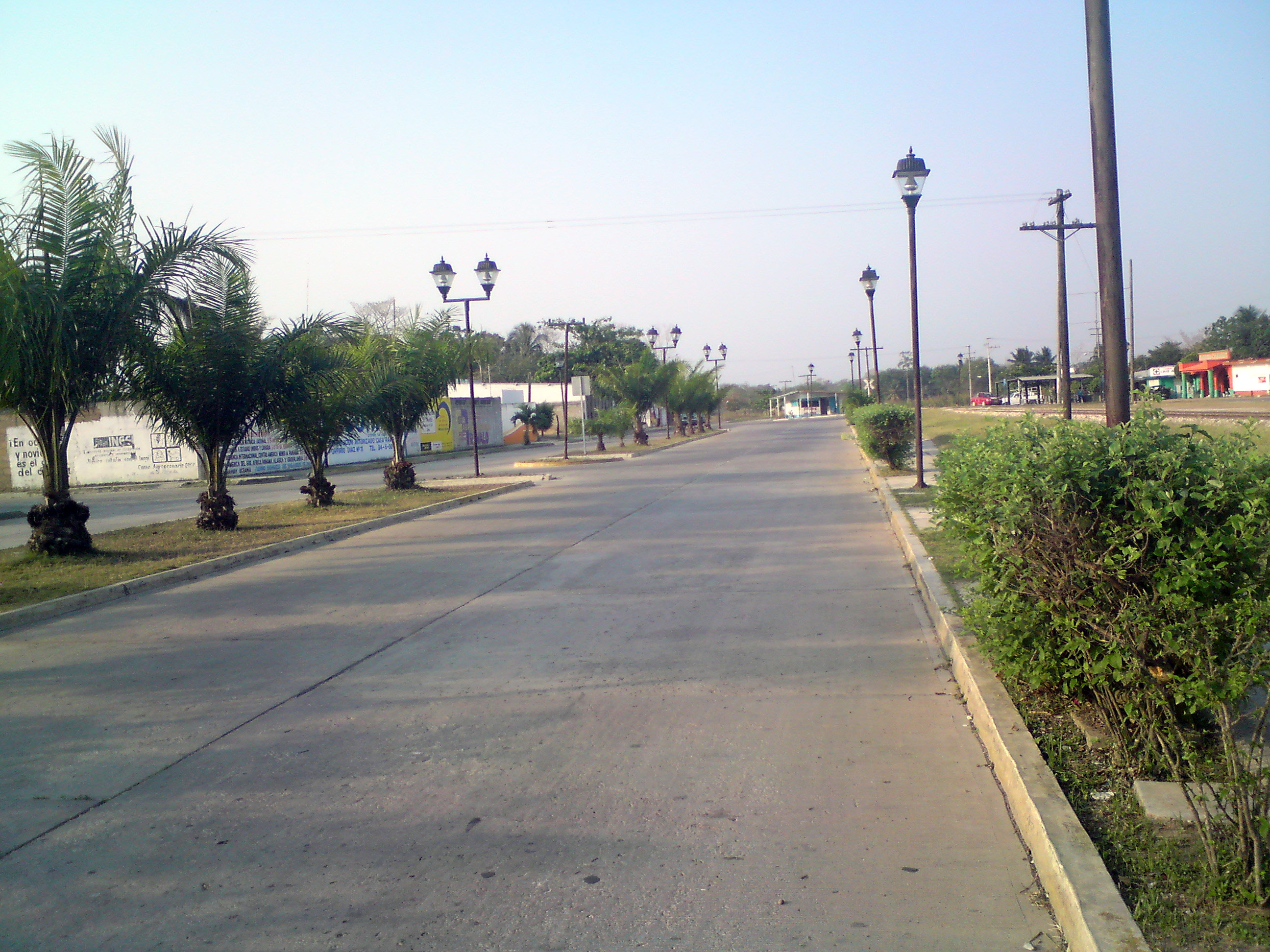 One of the two boulevards of the Villa El Triunfo, this is located near the center of the city, alongside the railroad tracks, this is the smaller boulevard of the Triunfo, with only 450 meters. Tagalog: Uno de los dos bulevares de la Villa El Triunfo, este se ubica cerca del centro de la ciudad, en paralelo con las vías del ferrocarril, este es el boulevard de menor tamaño del Triunfo, contando con solo 450 metros aproximadamente.